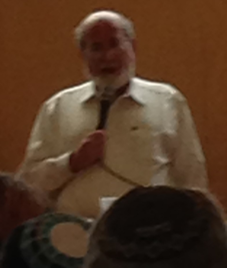 Rabbi Joseph Telushkin speaking at Adath Israel about Jewish humor.